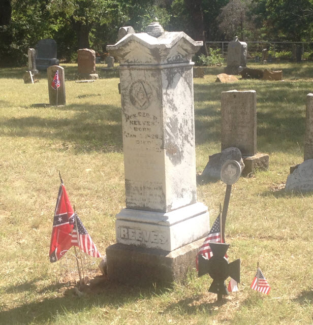 Photo of grave of George R. Reeves